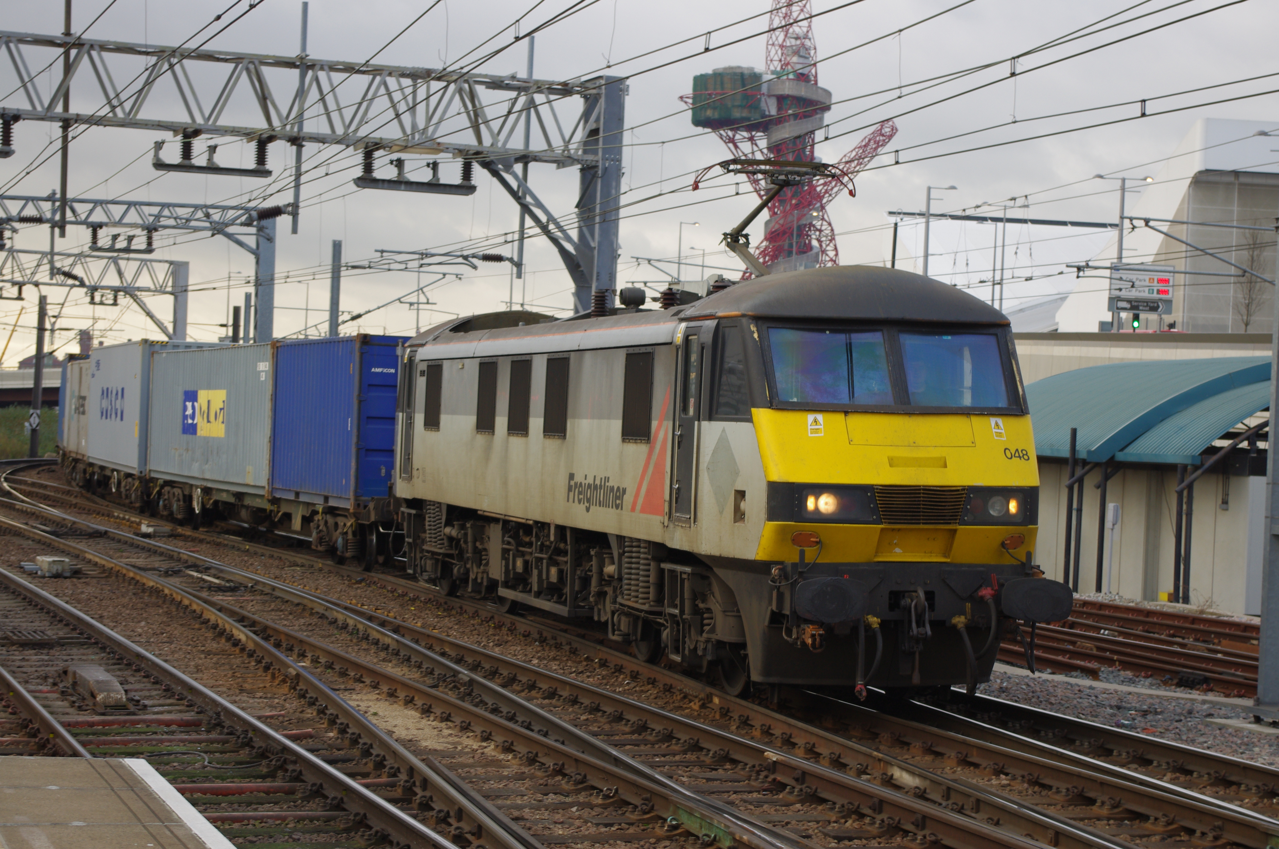 Working 4L41 06:04 Crewe-Felixstowe.